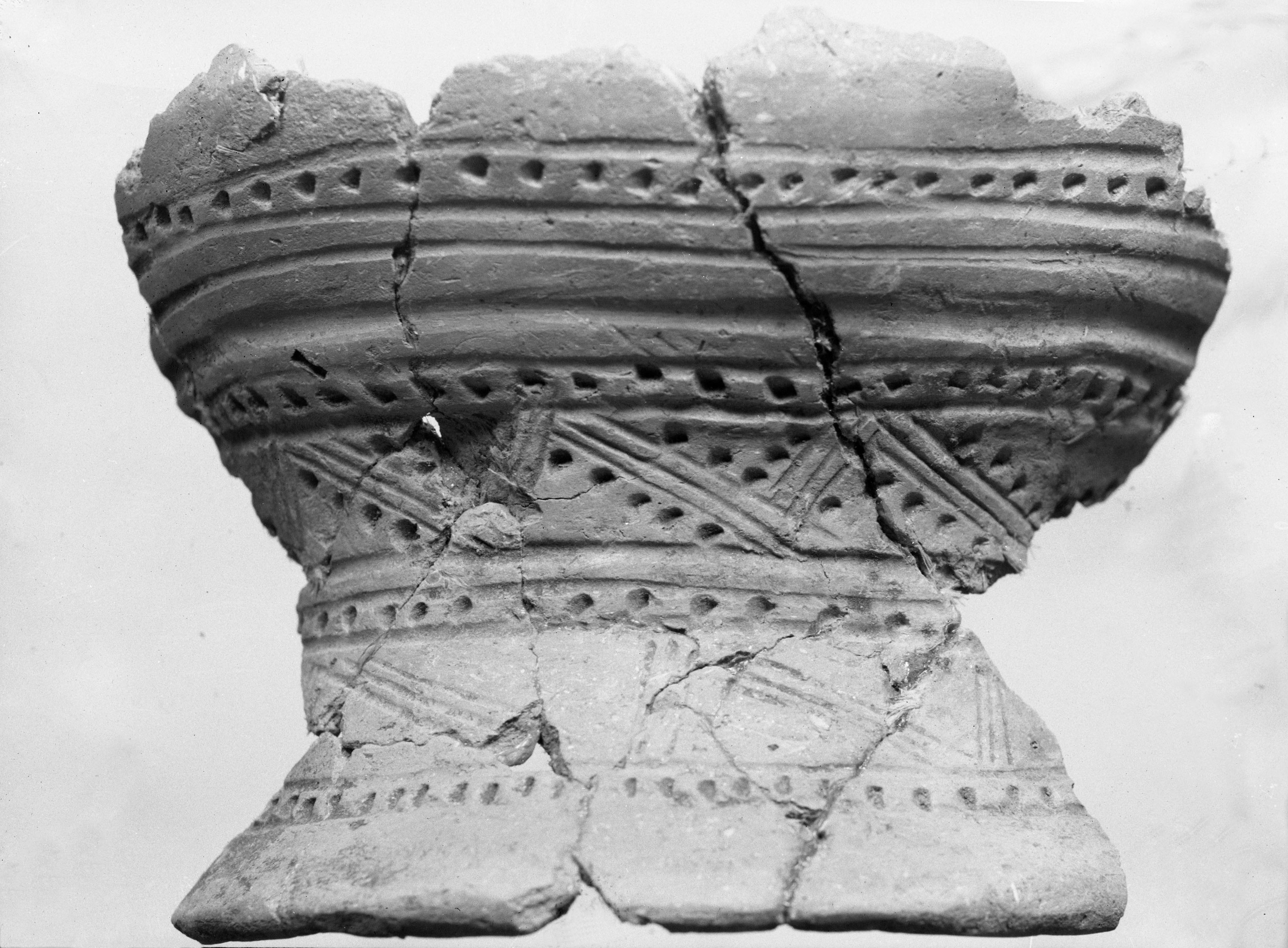 Clay bowl found at the outskirts of Gløshaugen, Trondheim in 1934, while preparing the ground for a sports field. Close to this find two graves from the Roman iron age (1–400 AD) or the Migration Period (300-700 AD) were discovered.